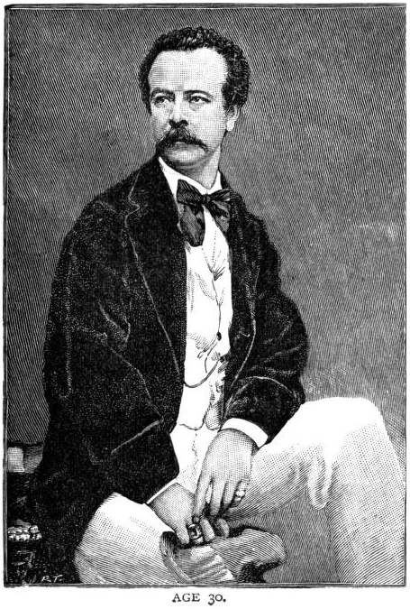 Engraved portrait of Charles Frederick Worth, fashion designer, aged 30 (in 1855)